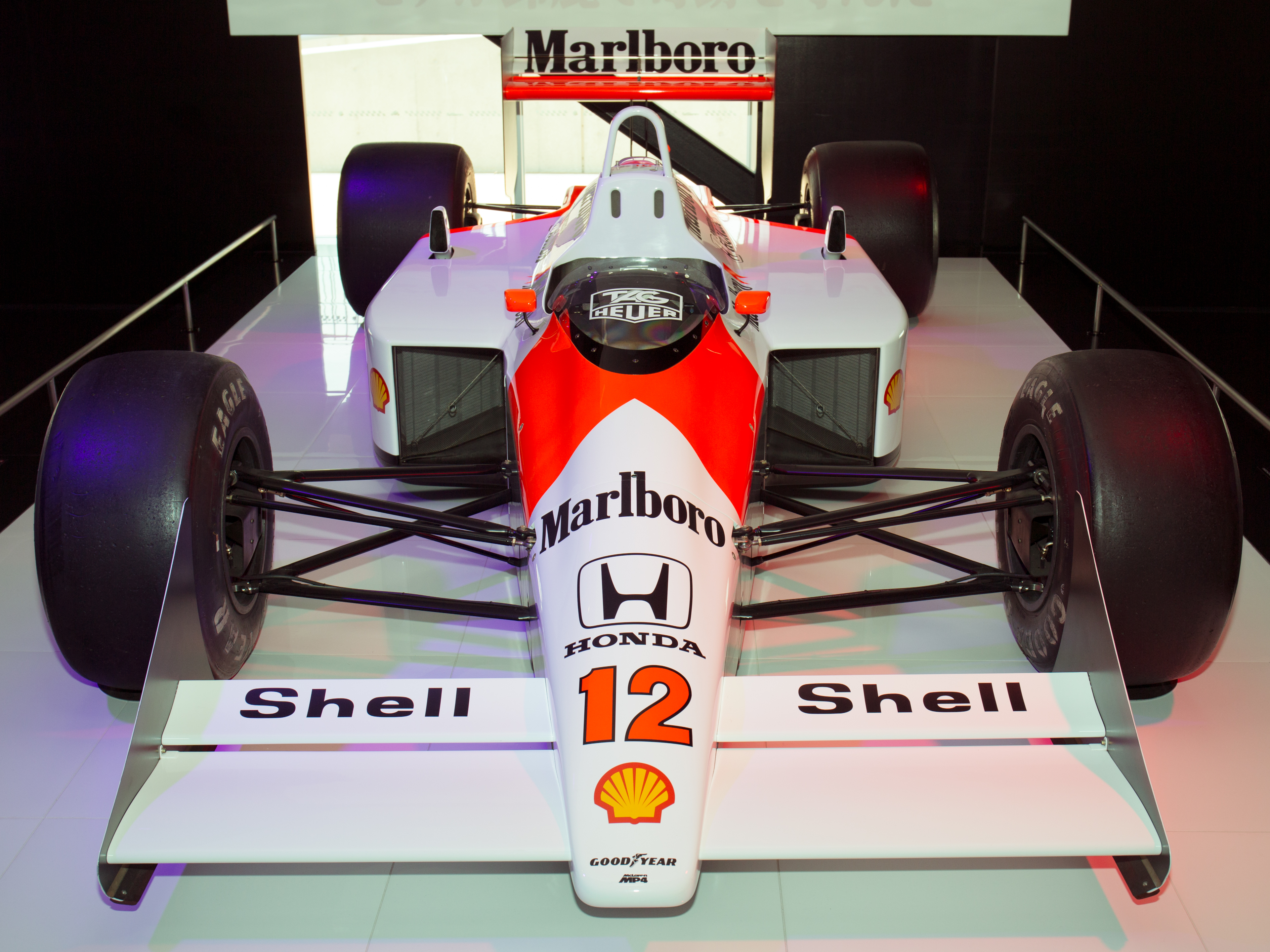 1988 McLaren MP4/4 earlier version's show car (MP4/4/SSC/10)